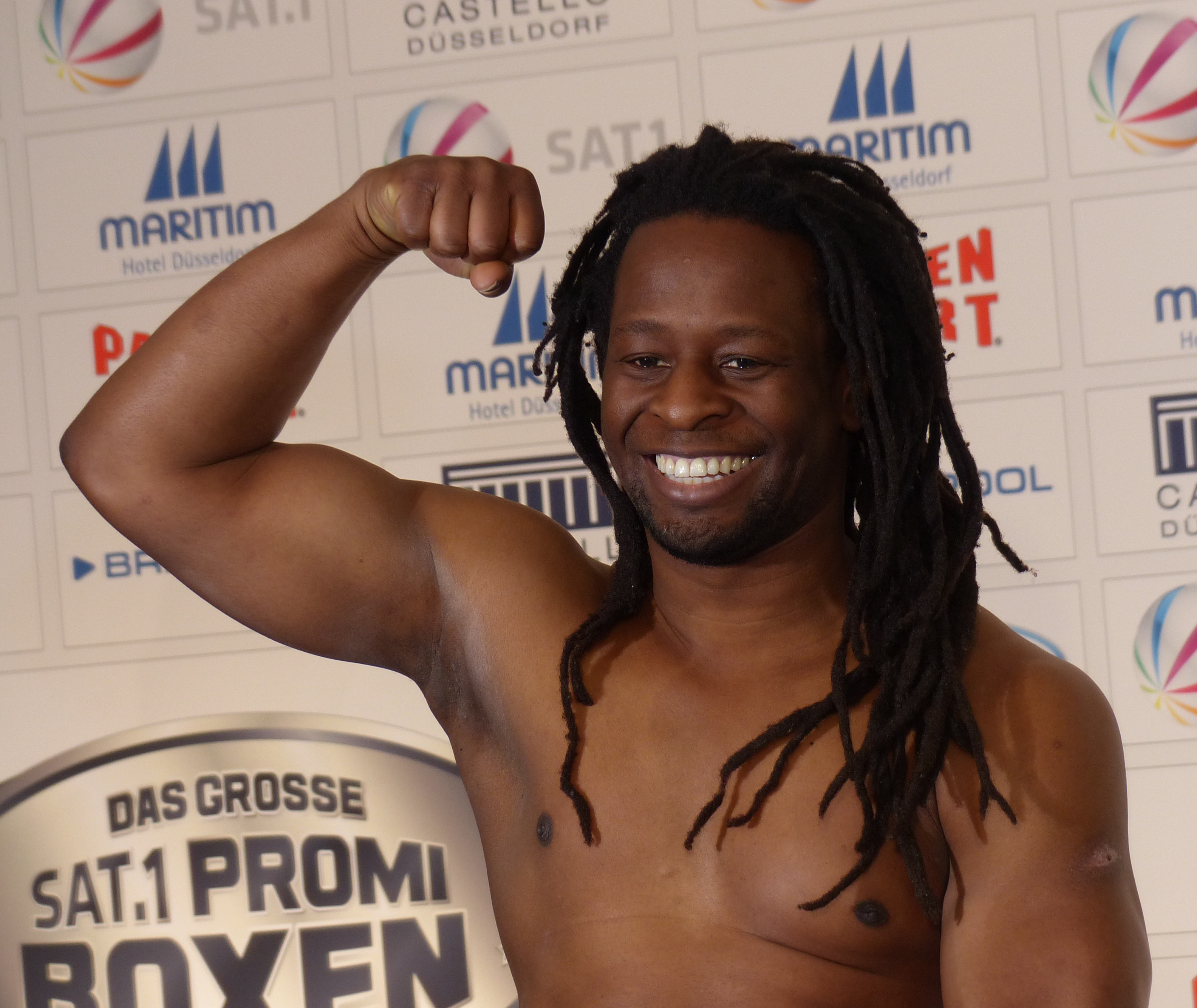 Mola Adebisi beim offiziellen Wiegen fürs Promiboxen 2013